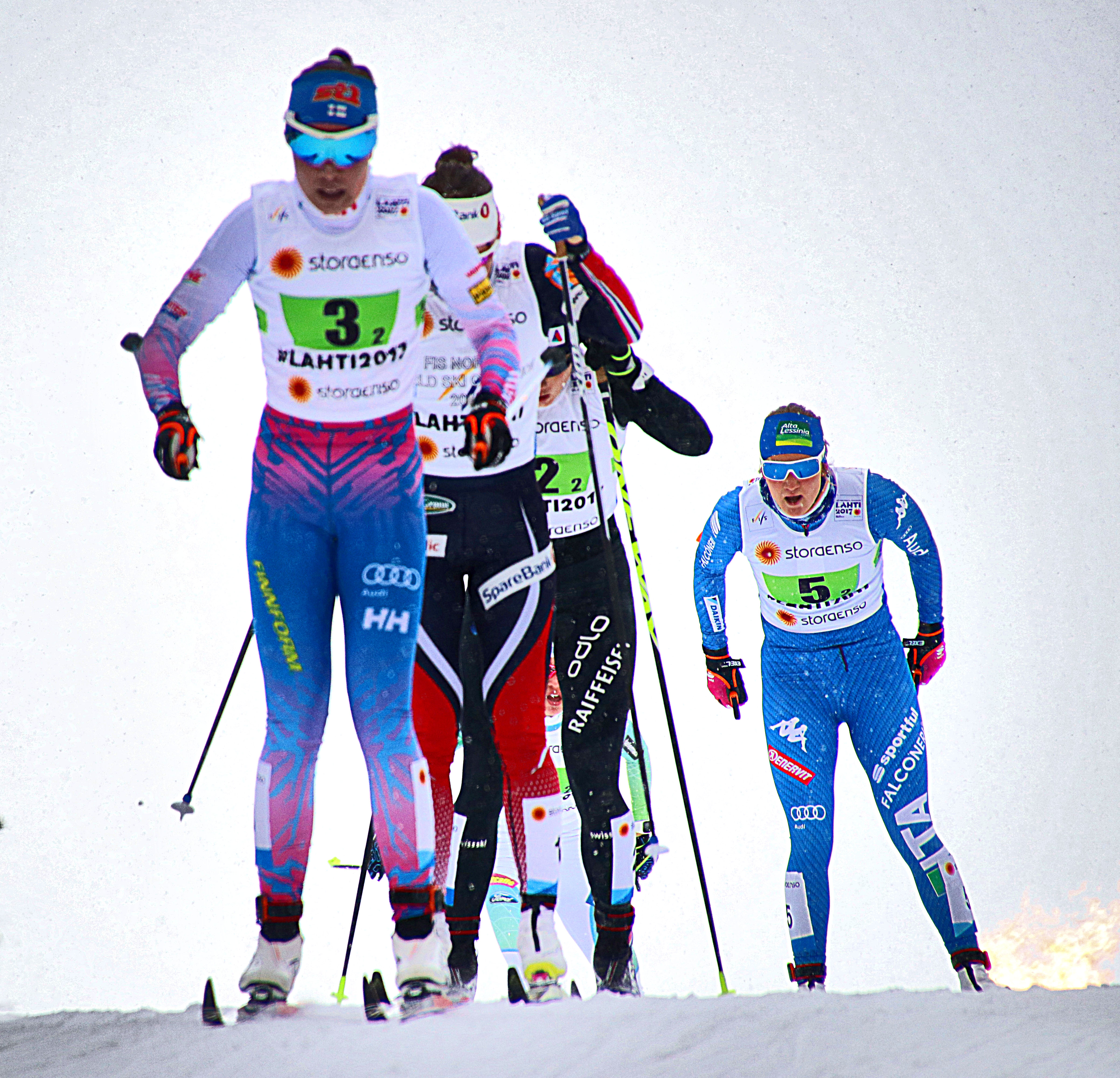 Lahti. At the cross-country skiing World Championships.